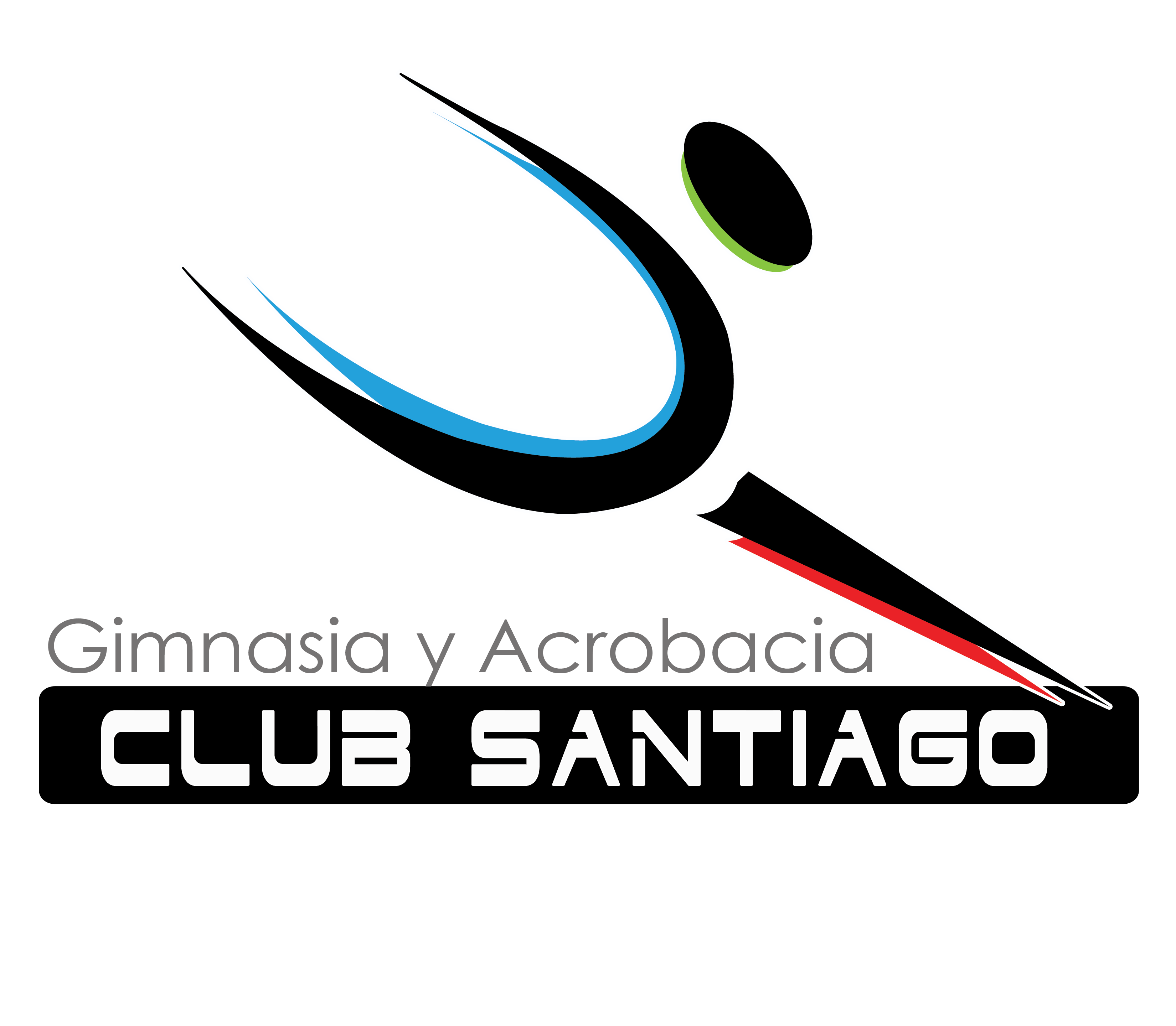 Logo de la Escuela de Gimnasia Club Santiago Gym